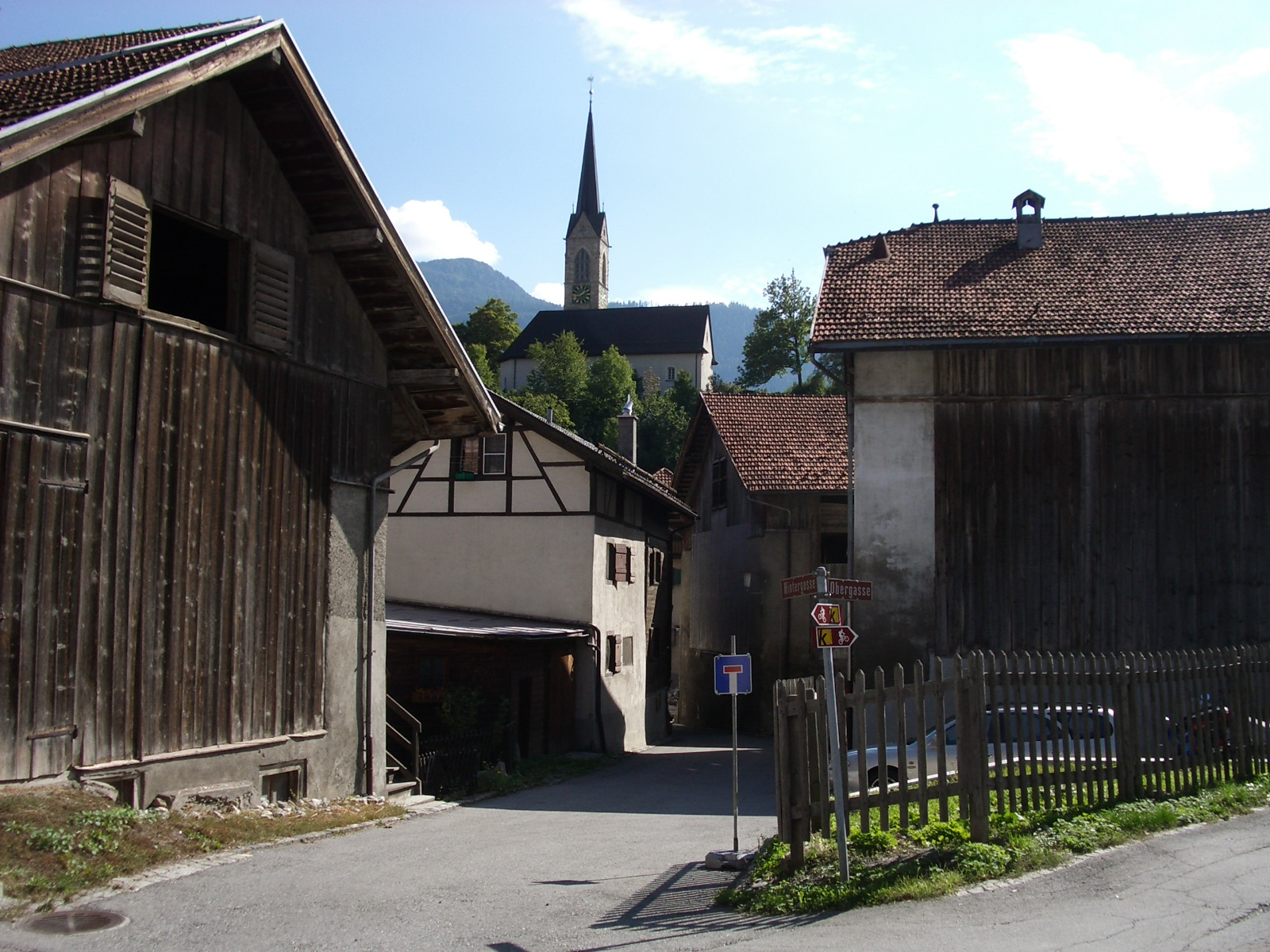 Tamins GR, Switzerland self-made, September